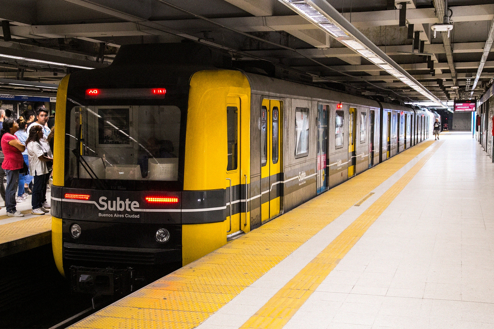 200 series of the Buenos Aires Underground at Line C.